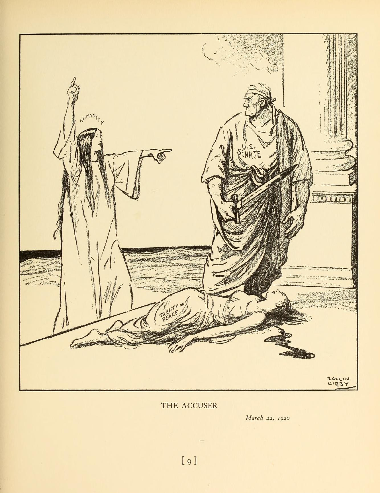 Political cartoon by Rollin Kirby The Accuser, March 22, 1920